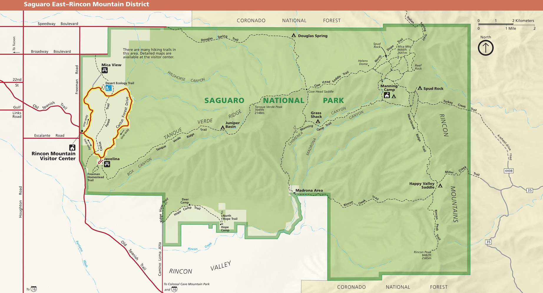 Map of the Eastern area of Saguaro National Park, Arizona, United States.